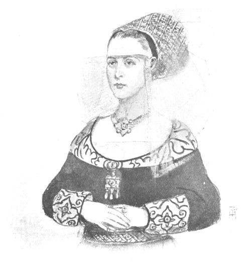 Elizabeth of Woodville - illustration by Percy Anderson for Costume Fanciful, Historical and Theatrical, 1906